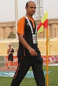 Naeim Saadavi